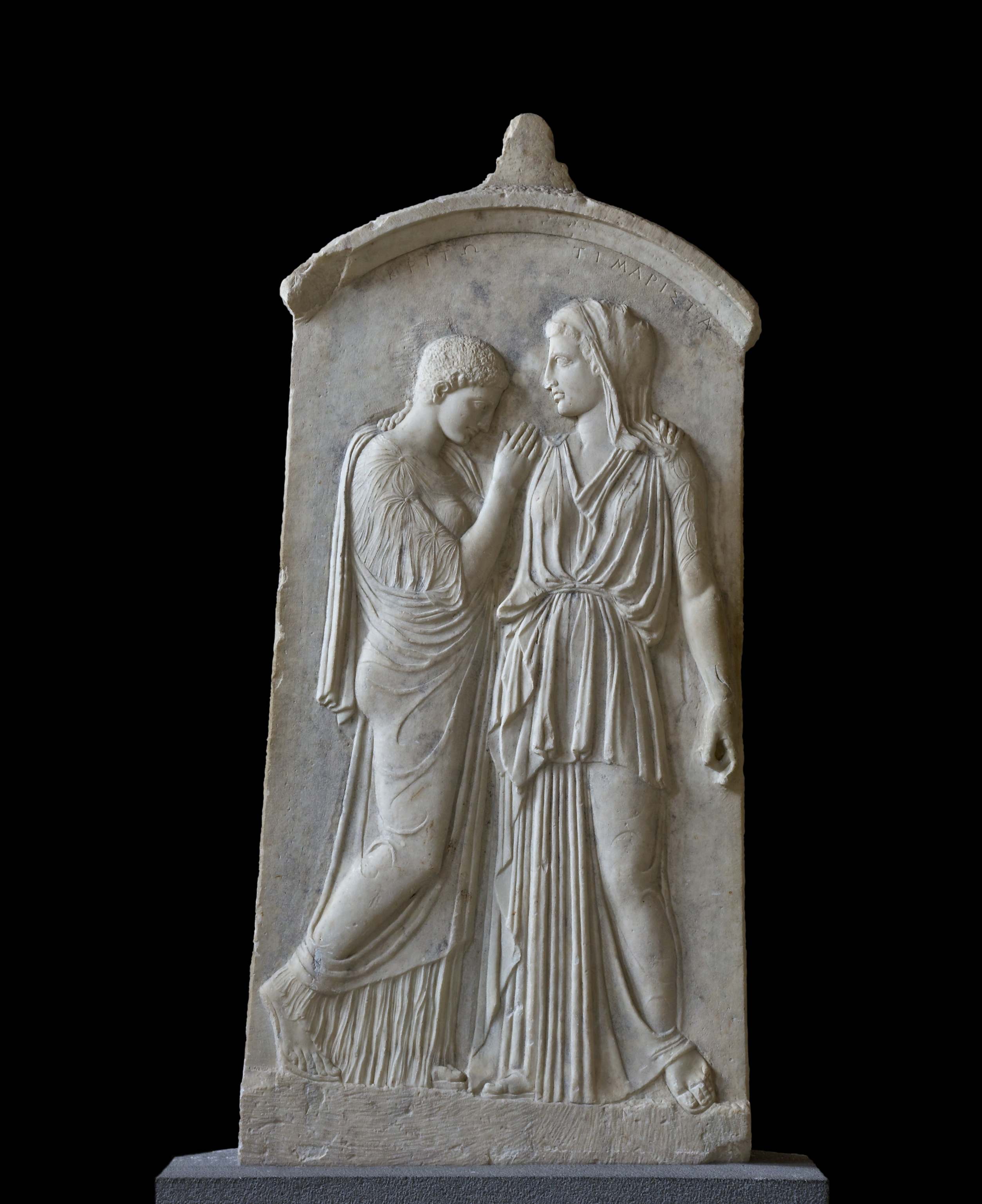 Grave relief of Krito (Κριτω) and Timarista (Τιμαριστα). Found in the cemetery at Kameiros (site of Makry Langoni). The dead mother Timarista and her daughter Krito are represented standing and embracing. The shape of the stele with its unusual arched finial, the tender rendering of the figures in bas-relief and the emotional intensity of the scene reveal the work's ionic character, from Phidias inspiration. Marble. 420-410 BCE